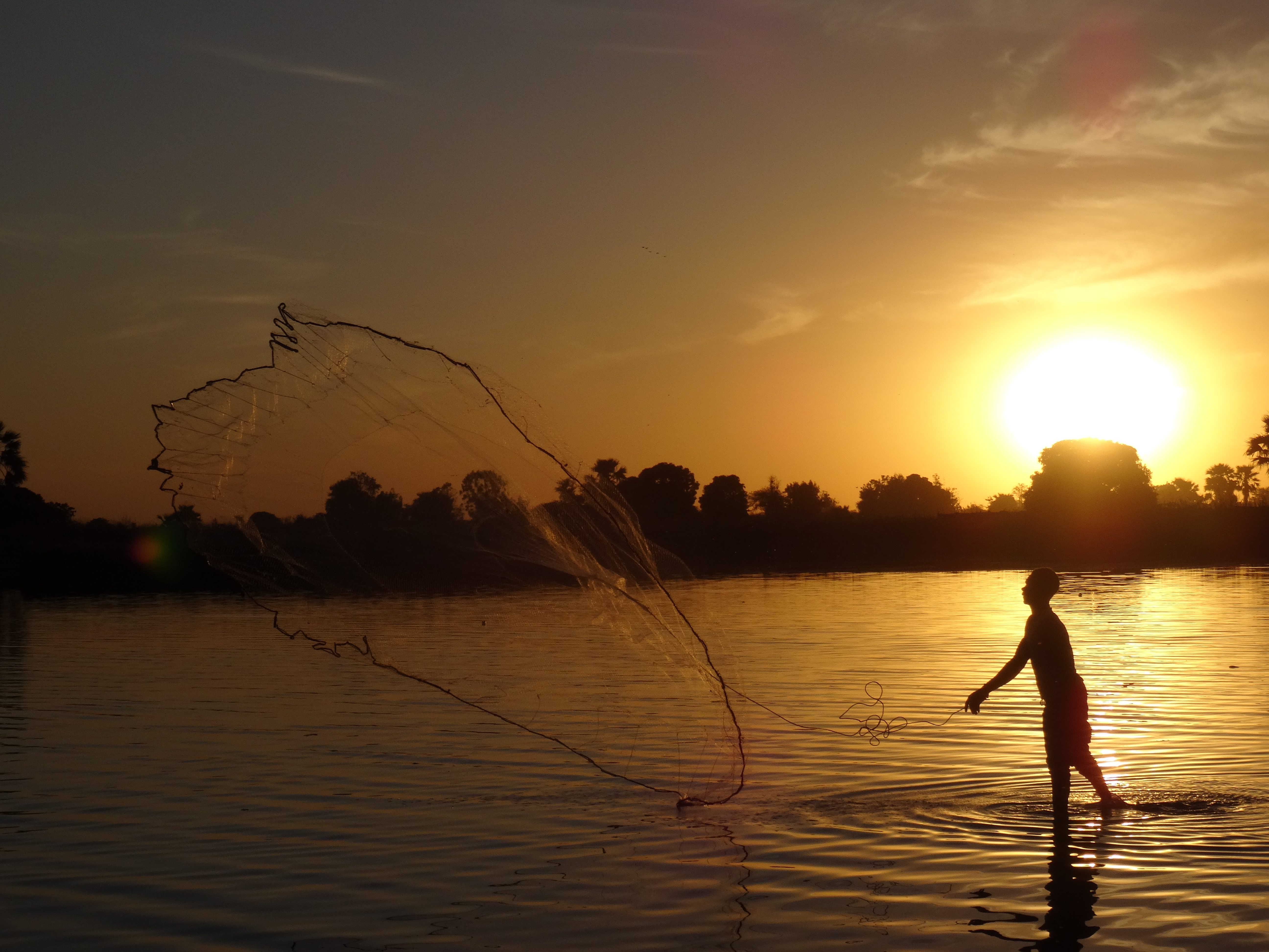 A young man fishing in the sunset at river Niger near Ségou, Mali. Picture taken in January 2017. This is an image of "African people at work" from Mali